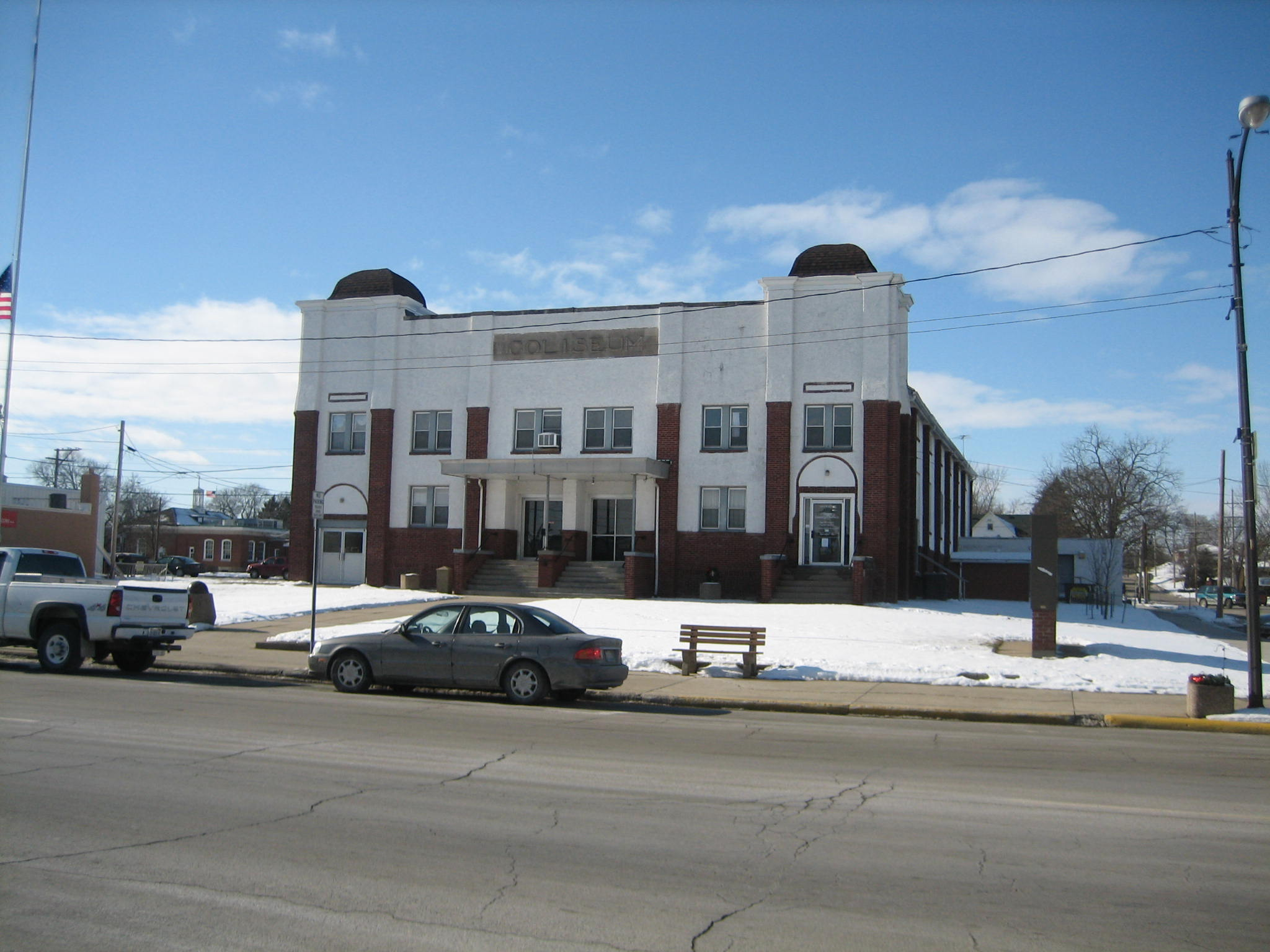 Oregon Coliseum, part of the Oregon Commercial Historic District, Oregon, Illinois. National Register of Historic Places.